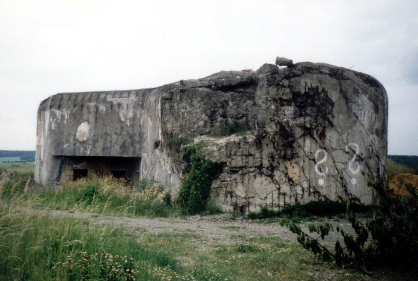 MO-S 20 U orla infantry casemate, Orel fortress, Opava District, Czech Republic